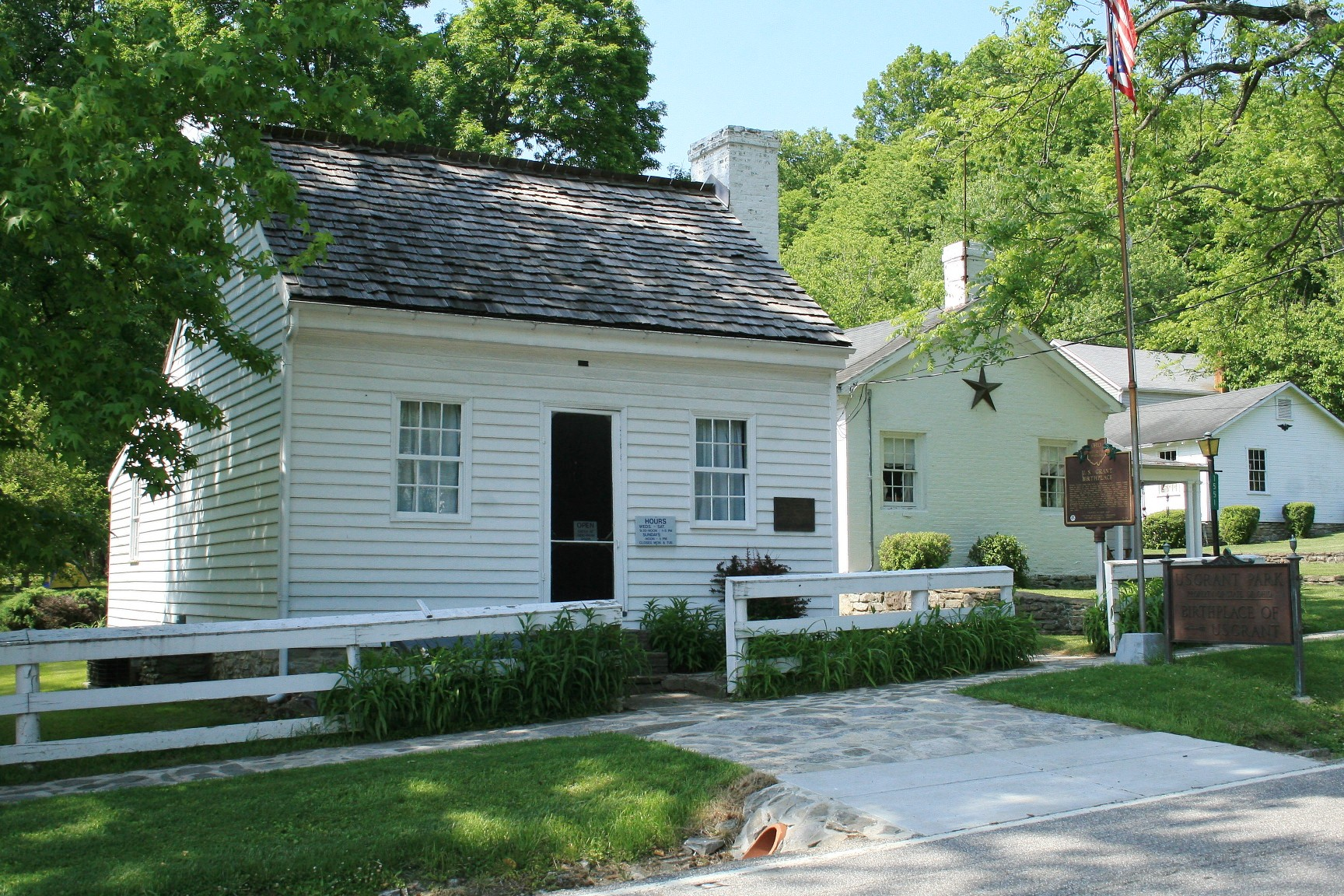 Birthplace of Ulysses Grant in Point Pleasant, Ohio on 5/19/07. Greg Hume 03:36, 20 May 2007 (UTC)